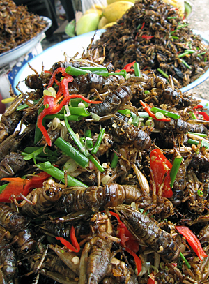 Insects are eaten widely in Cambodia. The UN hopes to fight child malnutrition in Laos with nutrient-packed bugs.